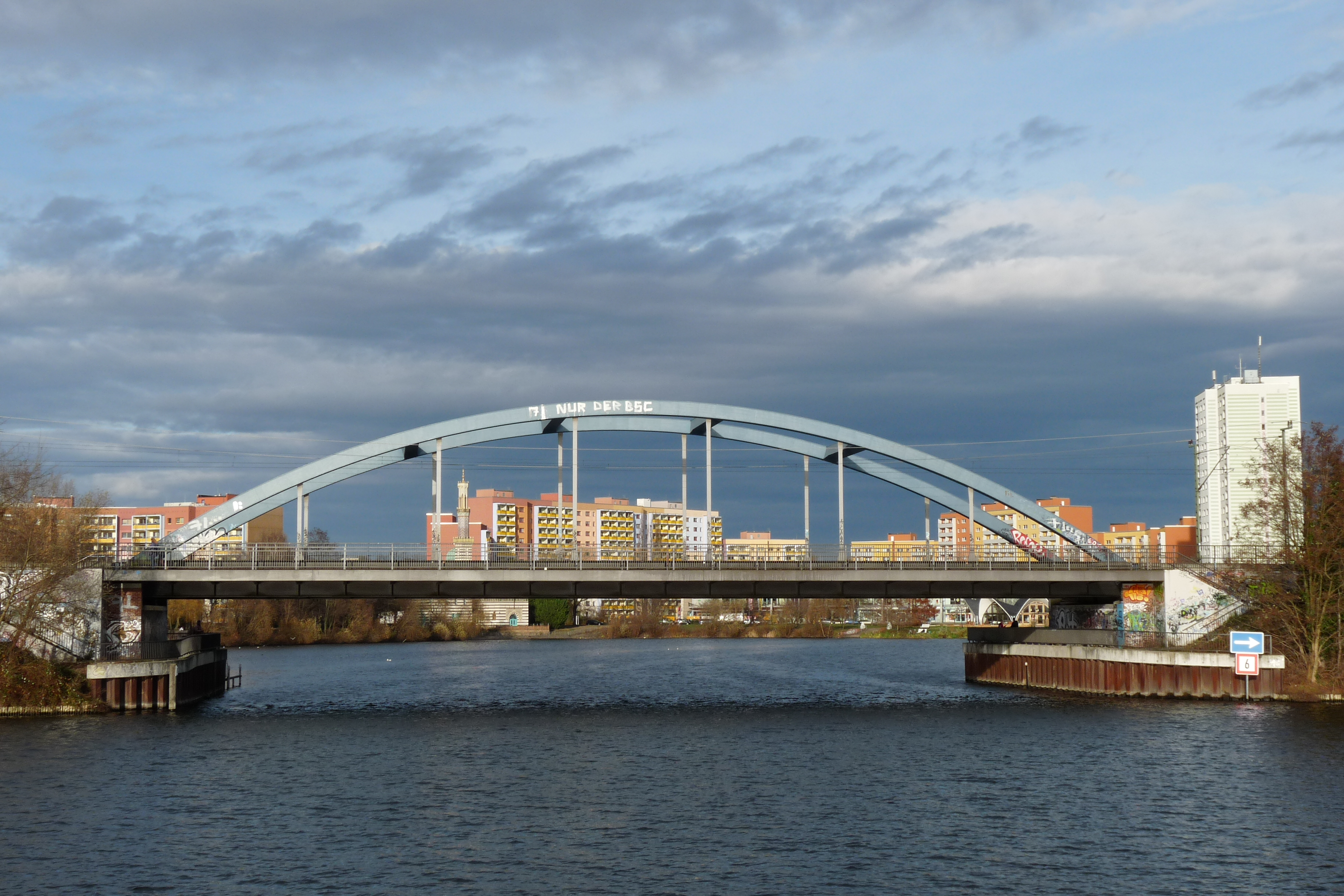 The train bridge at Neustädter Havelbucht in Potsdam